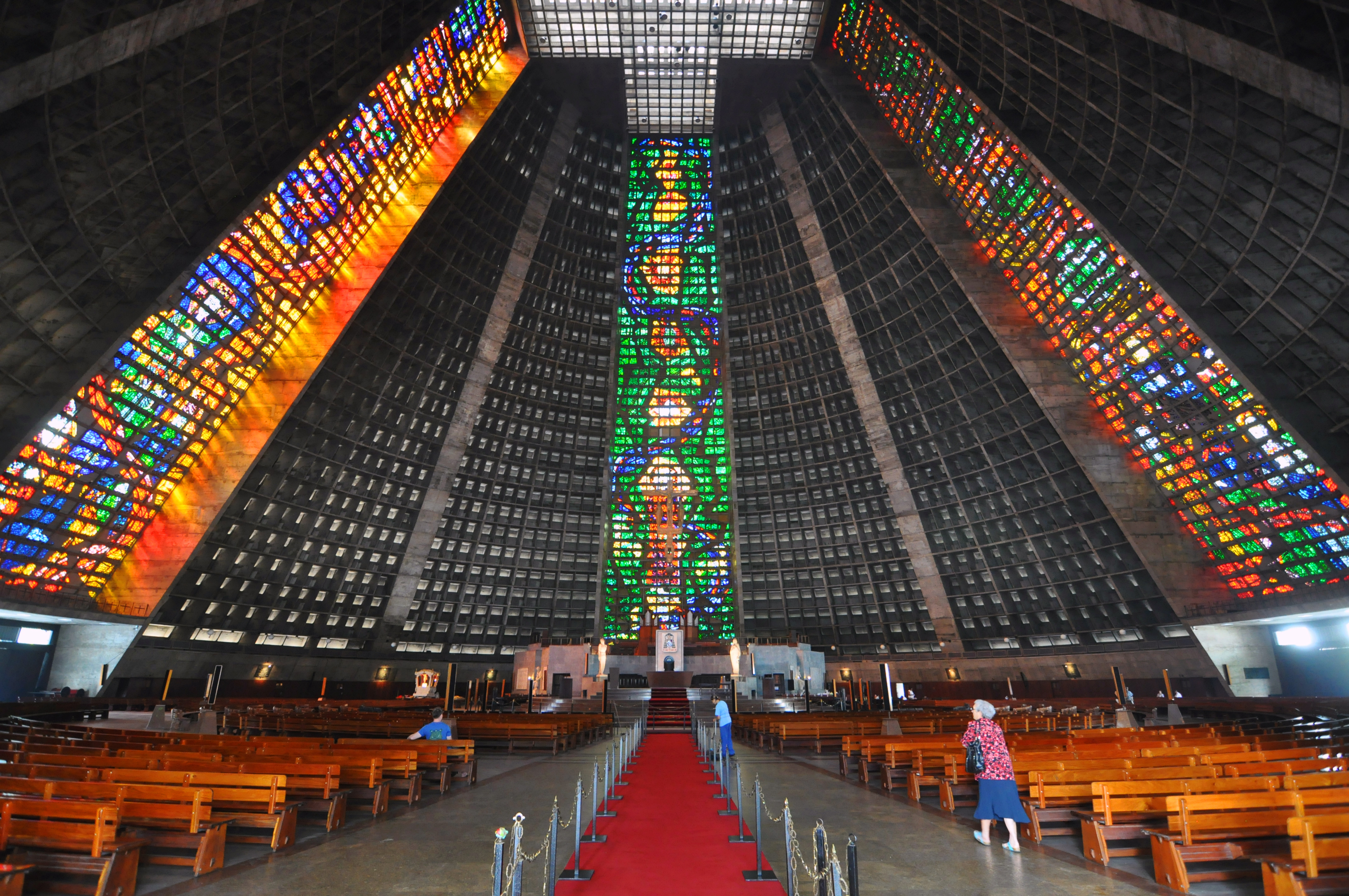 Rio de Janeiro Cathedral Sao Sebastiao 2010 interior